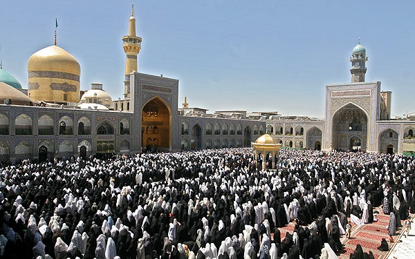 Imam Reza shrine - 18 August 2007 / 3&4 Sha'ban 1428 A.H